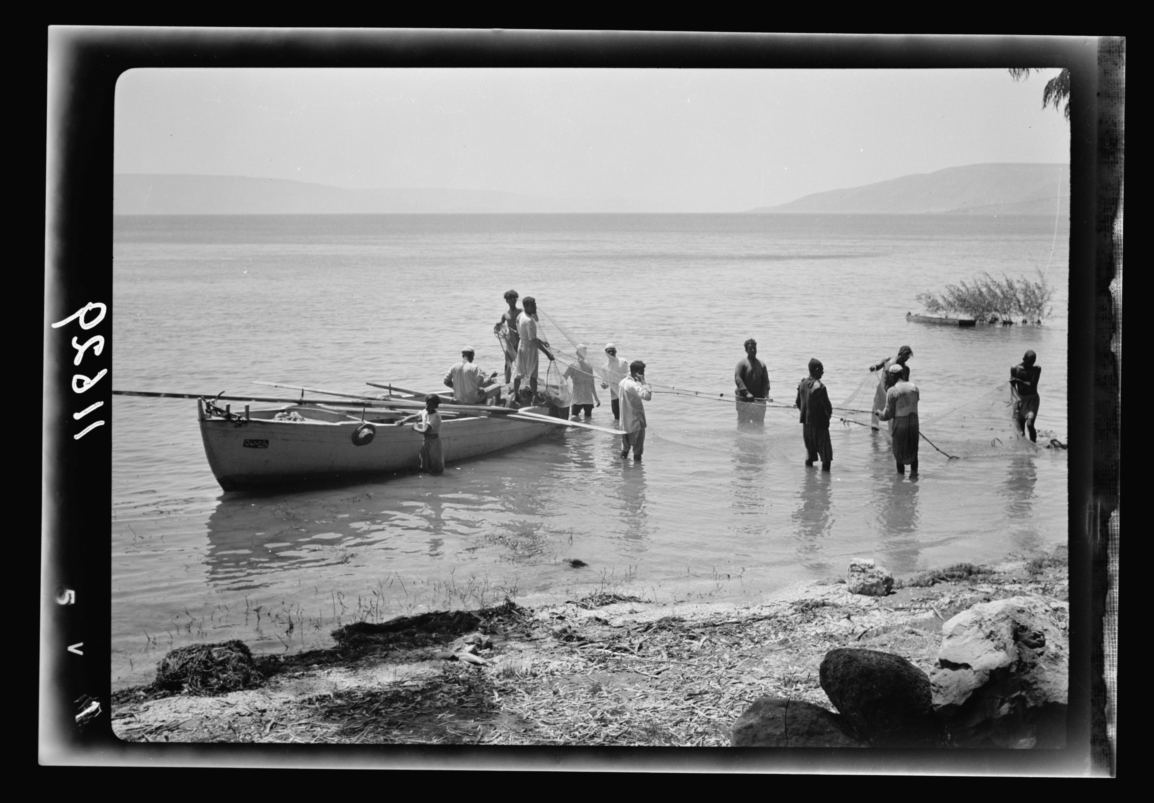 Title: Galilee trip. Tiberias fisheries (Arab). Fishing with drag net. Loading drag net on boat Abstract/medium: G. Eric and Edith Matson Photograph Collection Physical description: 1 negative